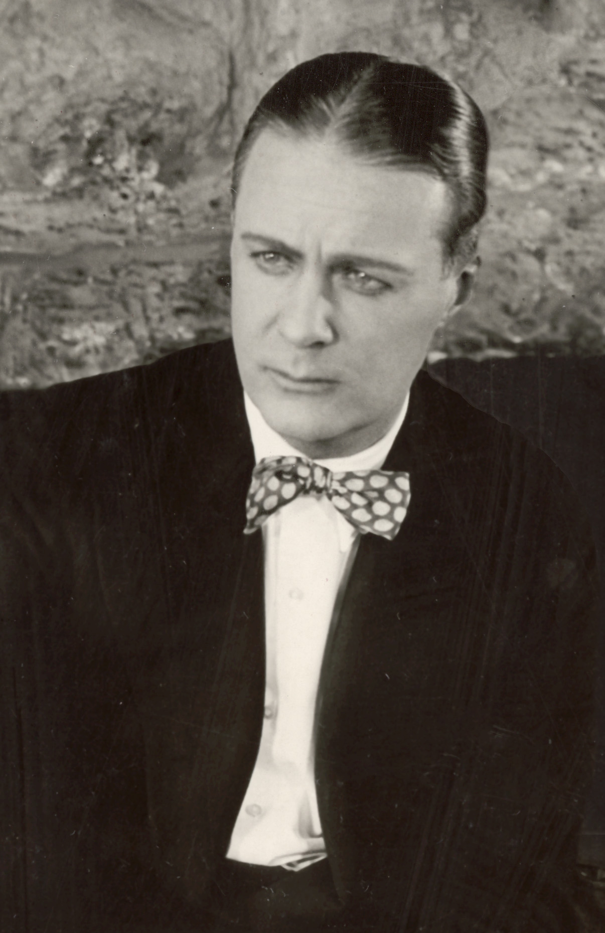 Huntley Gordon from a scene still for the Vitagraph silent drama film The Beloved Imposter (1918).